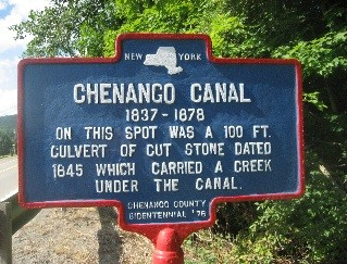 Historic marker of Chenango Canal #20. Here a 100 foot culvert of cut stone from 1845 carried the creek under the canal.